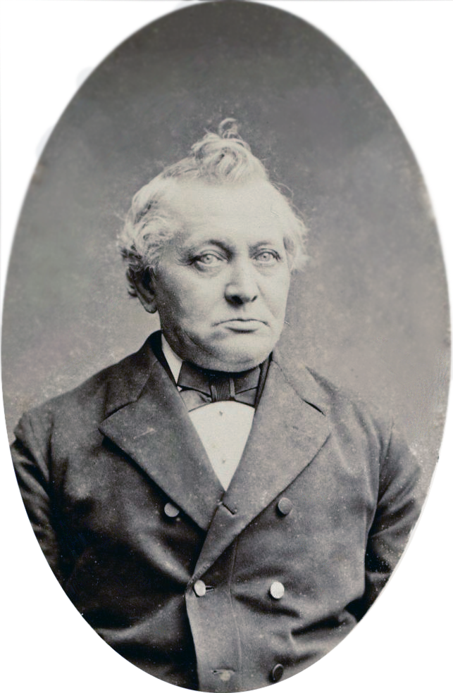 Jacob van Driessen, former mayor of Sneek